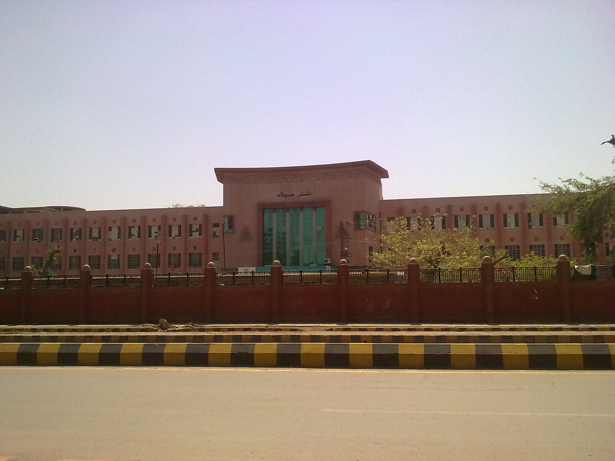 It is called Nishtar located on Nsihtar Road Multan Pakistan